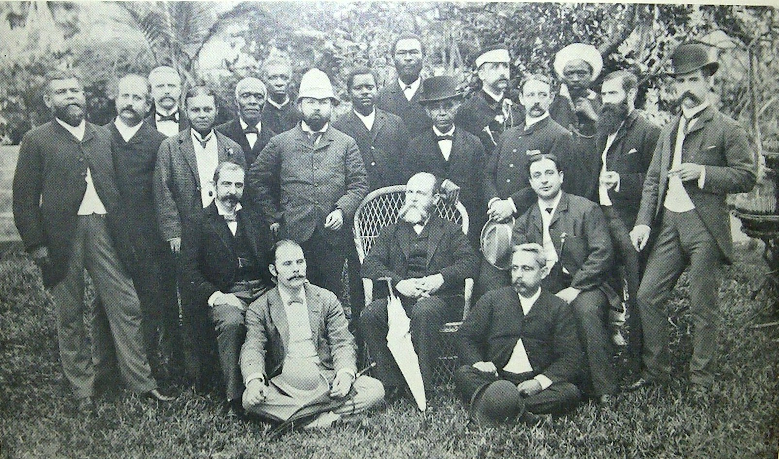 Sierra Leone. Group photograph taken February 1885. Many of the written details are illegible. The group includes: 1. Melvin Victor Dermont Stuart - Collector of Customs. 2. Captain J.N. Compton. 3. Robert Wade - Keeper of the Gaol (Freetown). 4. Dr. Robert Smith - Assistant Colonial Surgeon. 5. Thomas George Lawson - Government Inspector. 6. Reverend John Campbell - Assistant Colonial Chaplain. 7. C.H Moseley - Assistant Colonial Secretary. 8. James Hastings-Spaine - Postmaster. 9. Carroll - Master & Registrar. 10. John Meheux - Sheriff. 11. Alfred Revington - Sanitory Inspector & Assistant Inspector General of Police. 12. T.R. Pakenham - Assistant Colonial Secretary (Aborigines branch). 13. Mohammed Sanusi - Arabic Interpretor. 14. R.E. Pownall - Colonial Surveyor. 15. J.C. Gore. - Auditor-General. 16. T. Riseley Griffith - Colonial Secretary and Treasurer 17. Francis Pinkett - Chief Justice Administrator. 18. J.K. Donaldson - Queen's Advocate. 19. E.J. Cameron - Assistant Colonial Secretary & Treasurer. 20. Edwin Adolphus - Police Magistrate. See here for additional information.